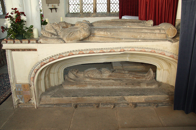 Founder's tomb 15th century prosperous wool merchant John Barton 1718504 died in 1491, his wealth accumulated from sheep was acknowledged in stone and stained-glass in his now-gone home 'I thank God and ever shall, It is the shepe that hath payed for all' (sic) he founded St. Giles' church and built his tomb during his lifetime with his memento mori 1718436 below. At his feet is his rebus - a barrel (tun) with a bar across it for 'Barton'.